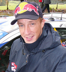 Kris Meeke at Blair Altholl Castle Services. Panasonic Lumix TZ1